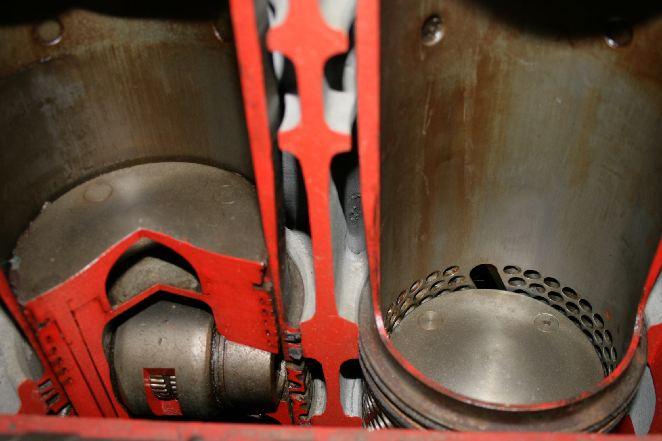 Detail of Jumo 205 diesel engine.